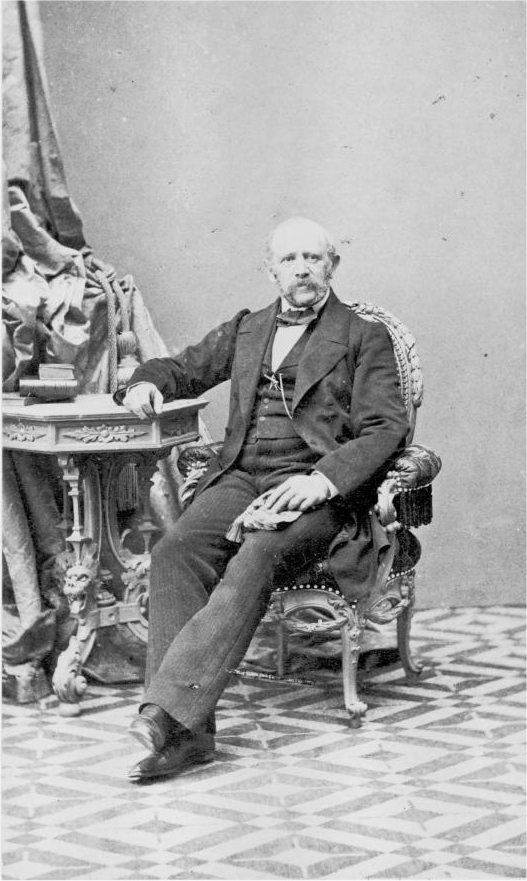 Josef Dessauer (1798-1876), componist